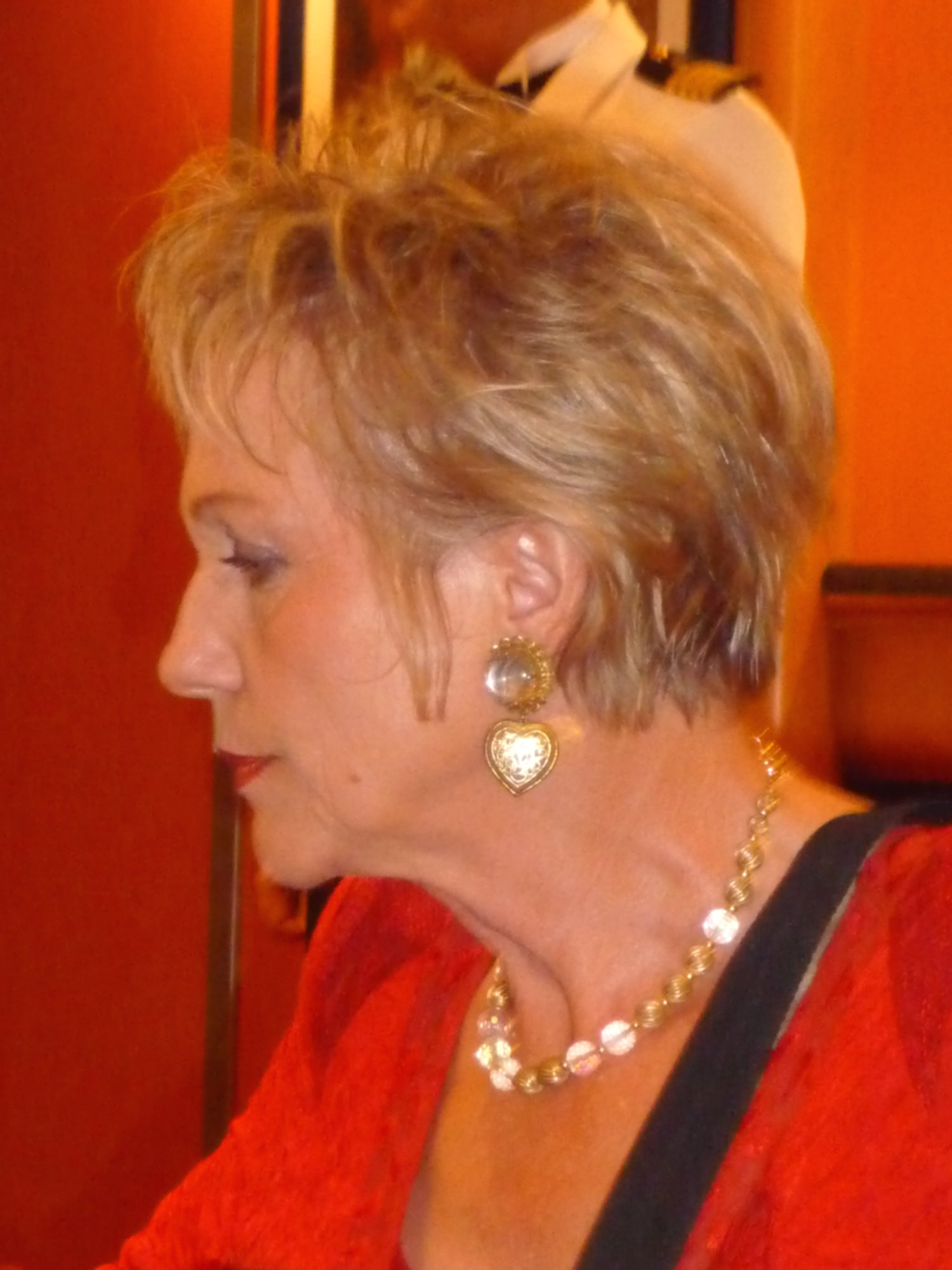 German Singer Edith Prock (Traditional music)